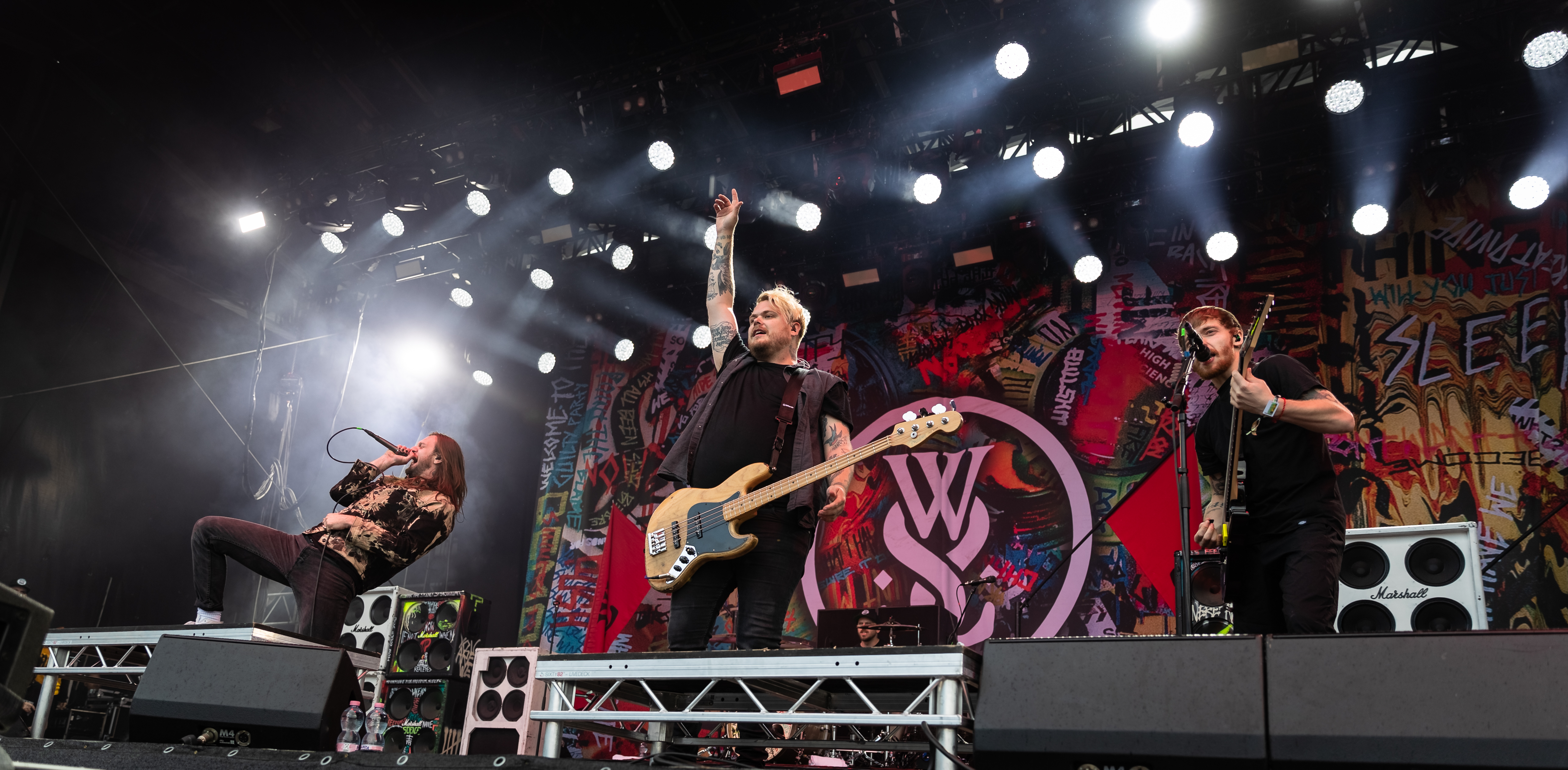 While She Sleeps - Rock am Ring 2019